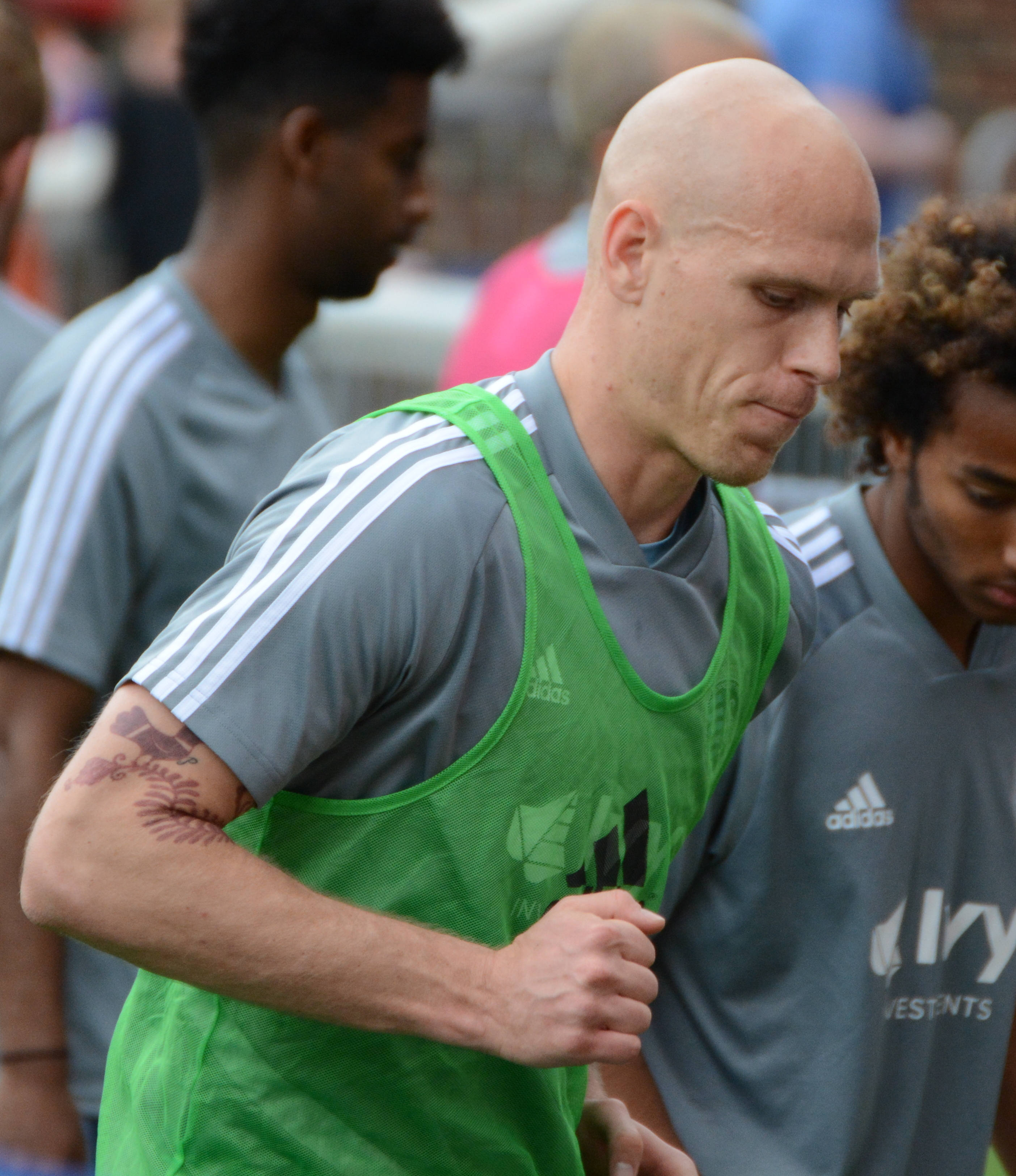 Taken during a Major League Soccer regular season match between FC Cincinnati and Sporting Kansas City at Nippert Stadium in Cincinnati, USA on April 7, 2019.